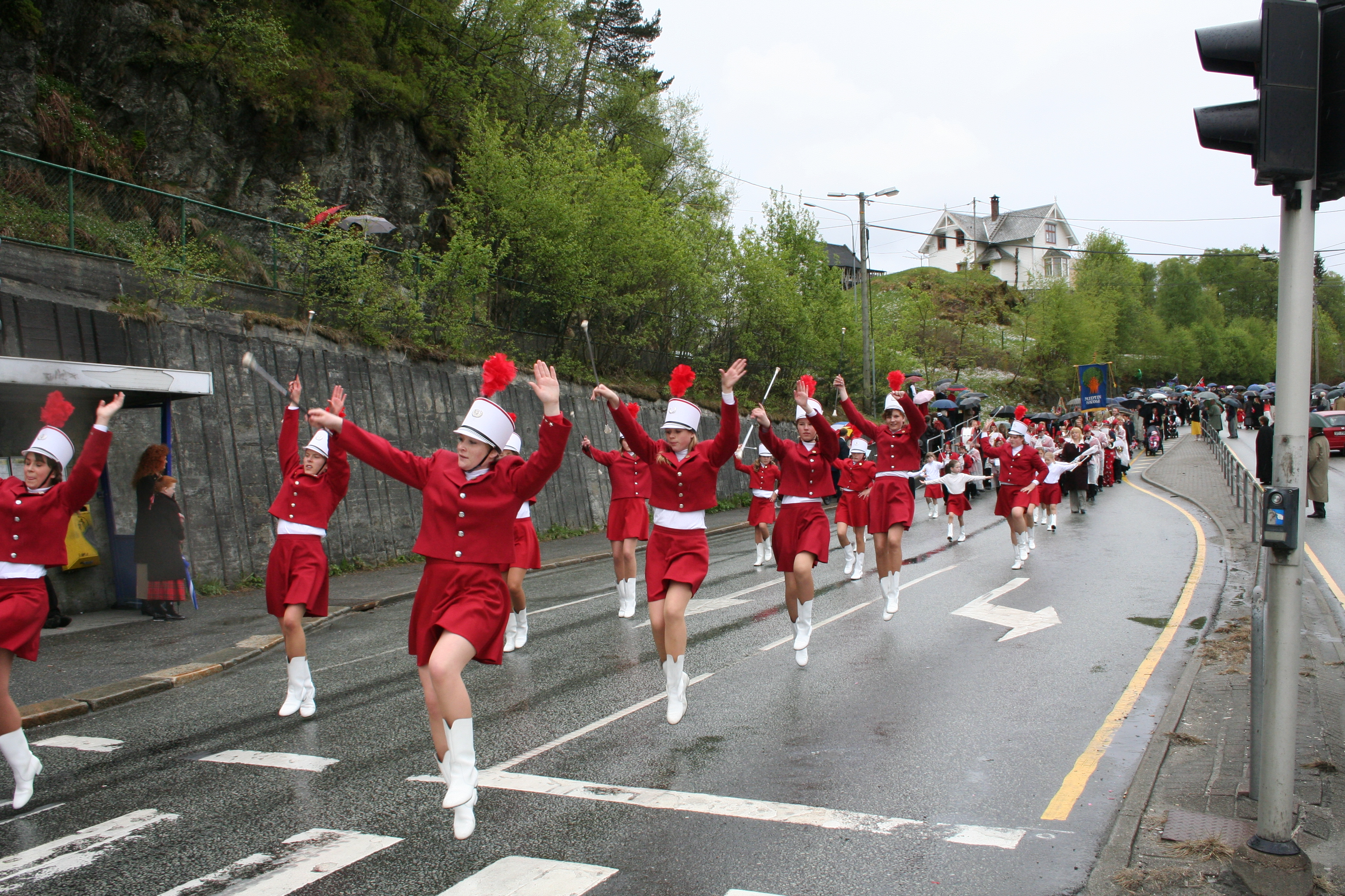 Drilltoppen til Midtun Skoles Musikkorps i 17. mai-prosesjonen på Nesttun, like ved Mårdalen bybaneholdeplass.